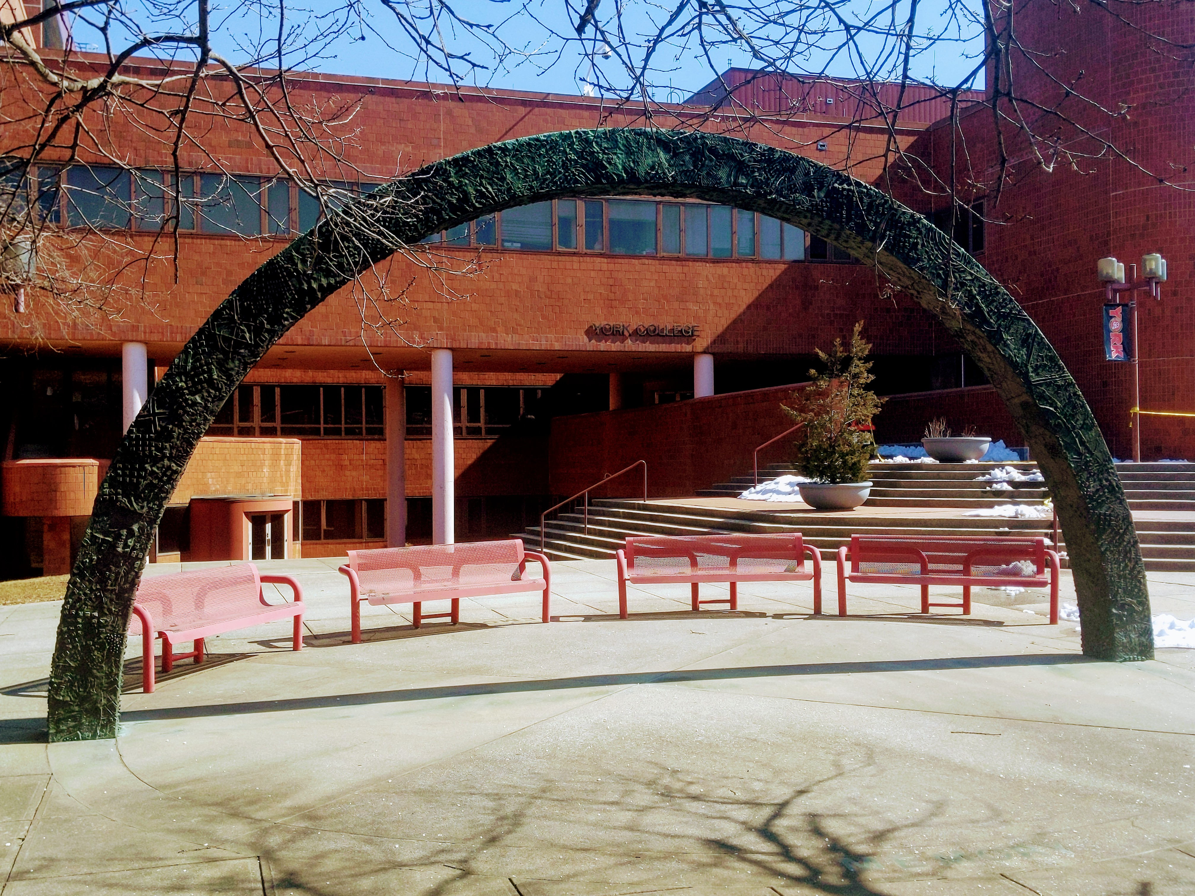 26' wide large scale installation, African brass embedded in the concrete, covered by inlays of various symbols. Oxidized to a teal color it is accompanied by three metal circles embedded in nearby concrete pavements, called memory, vision and imagination. Each circle is divided into four equal sections.